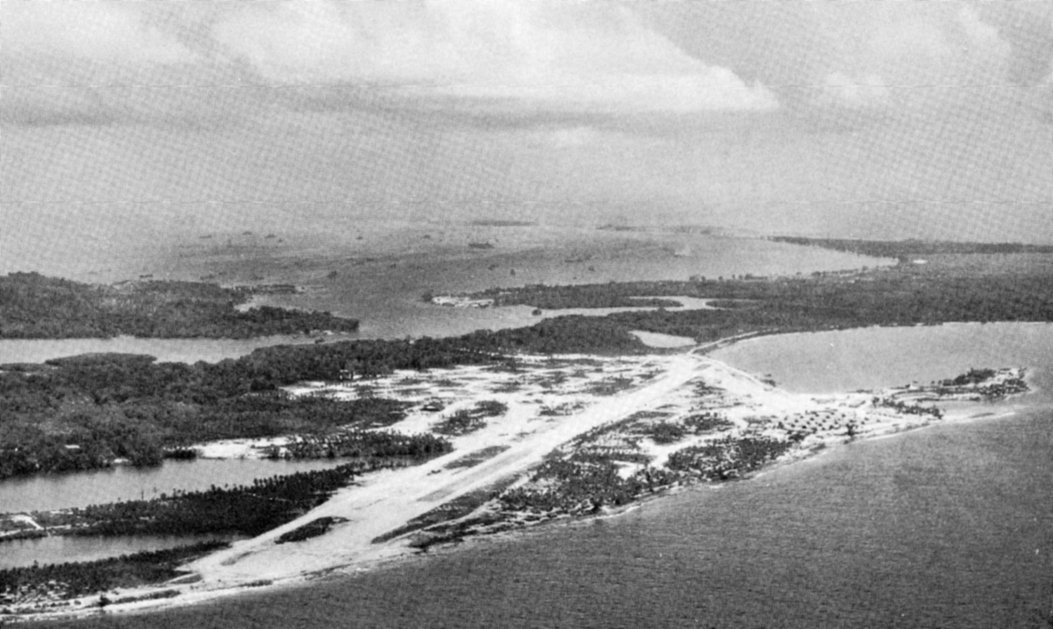 Momoto Airfield at Los Negros Island